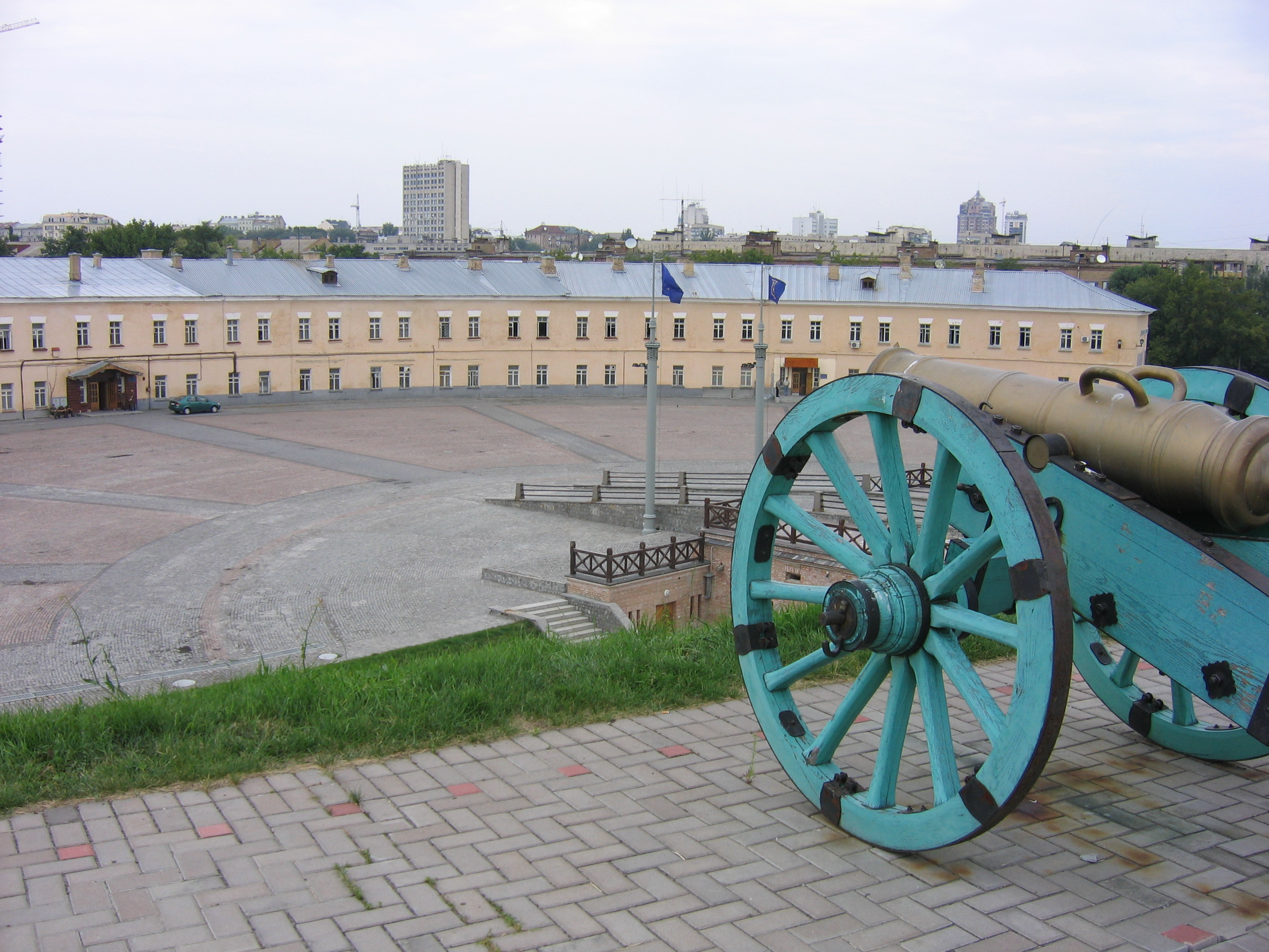 Kiev fortress in Kiev, Ukraine